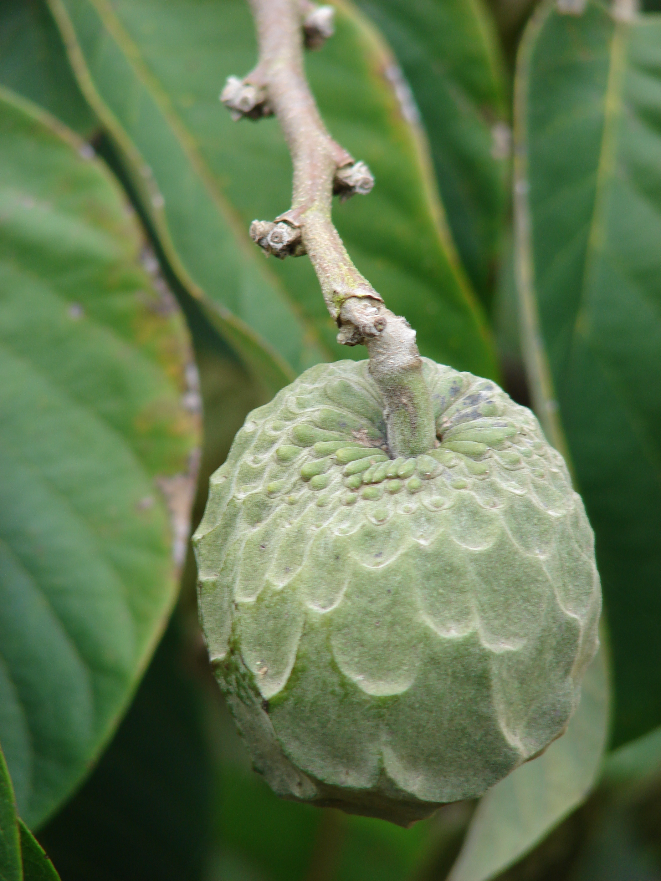 Annona cherimola (fruit). Location: Maui, Keokea